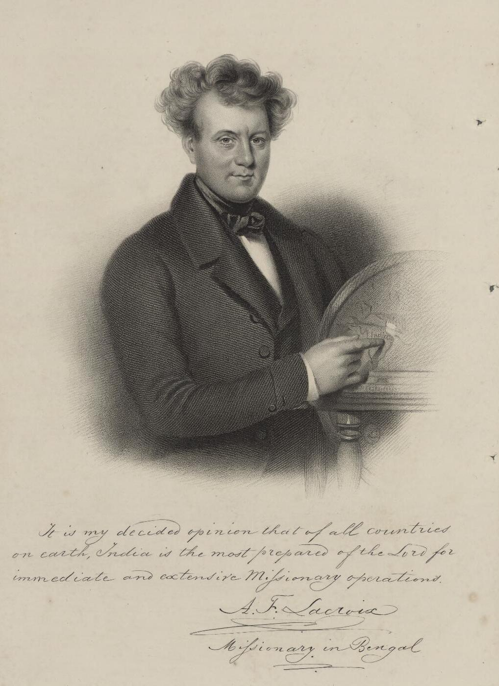 A portrait from the Welsh Portrait Collection at the National Library of Wales. Depicted person: Alphonse François Lacroix – Swiss-British Protestant missionary